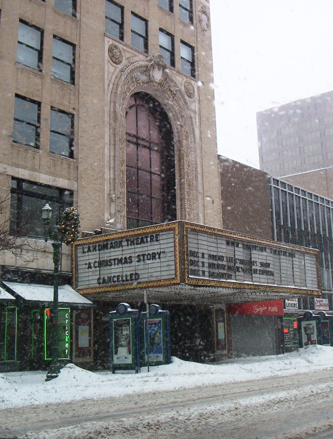 Loew's State Theatre, aka Landmark Theater, Syracuse, New York, marquee on a snowy Sunday